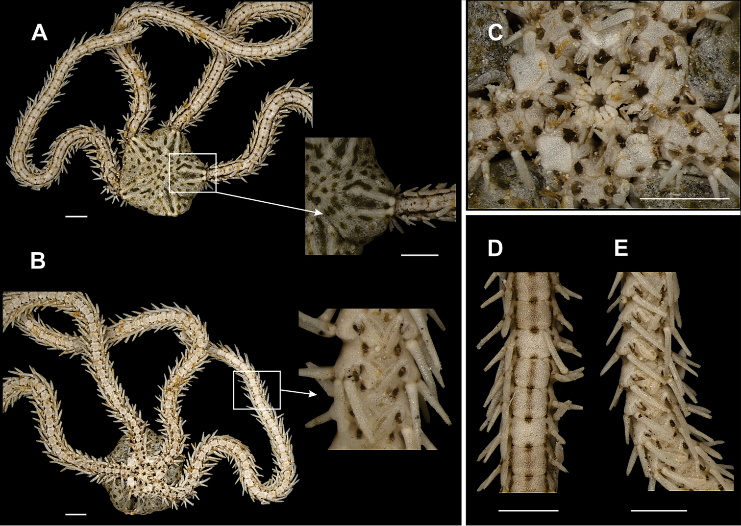 Ophiopsila hartmeyeri A dorsal view, detail of the radial shields B ventral view, detail of the tentacle scale C jaw D dorsal view of the arms E ventral view of the arms. Scale bar = 1 mm.